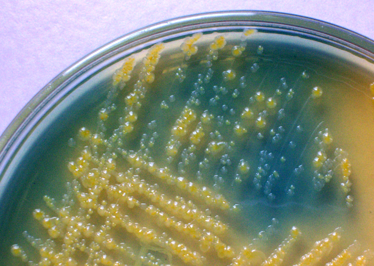 CLED (cysteine lactose electrolyte deficient) agar showing both lactose fermenting and non-fermenting colonies.